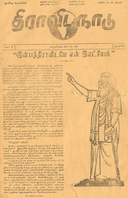 Front page of the Dravida Nadu magazine dated 29 September 1946. The magazine was published by C. N. Annadurai from Kanchipuram. This particular scan is taken from the collection of Pollachi Nasan. It depicts Periyar E. V. Ramasamy and his speech in the court during the Anti-Hindi Agitations of 1937-40